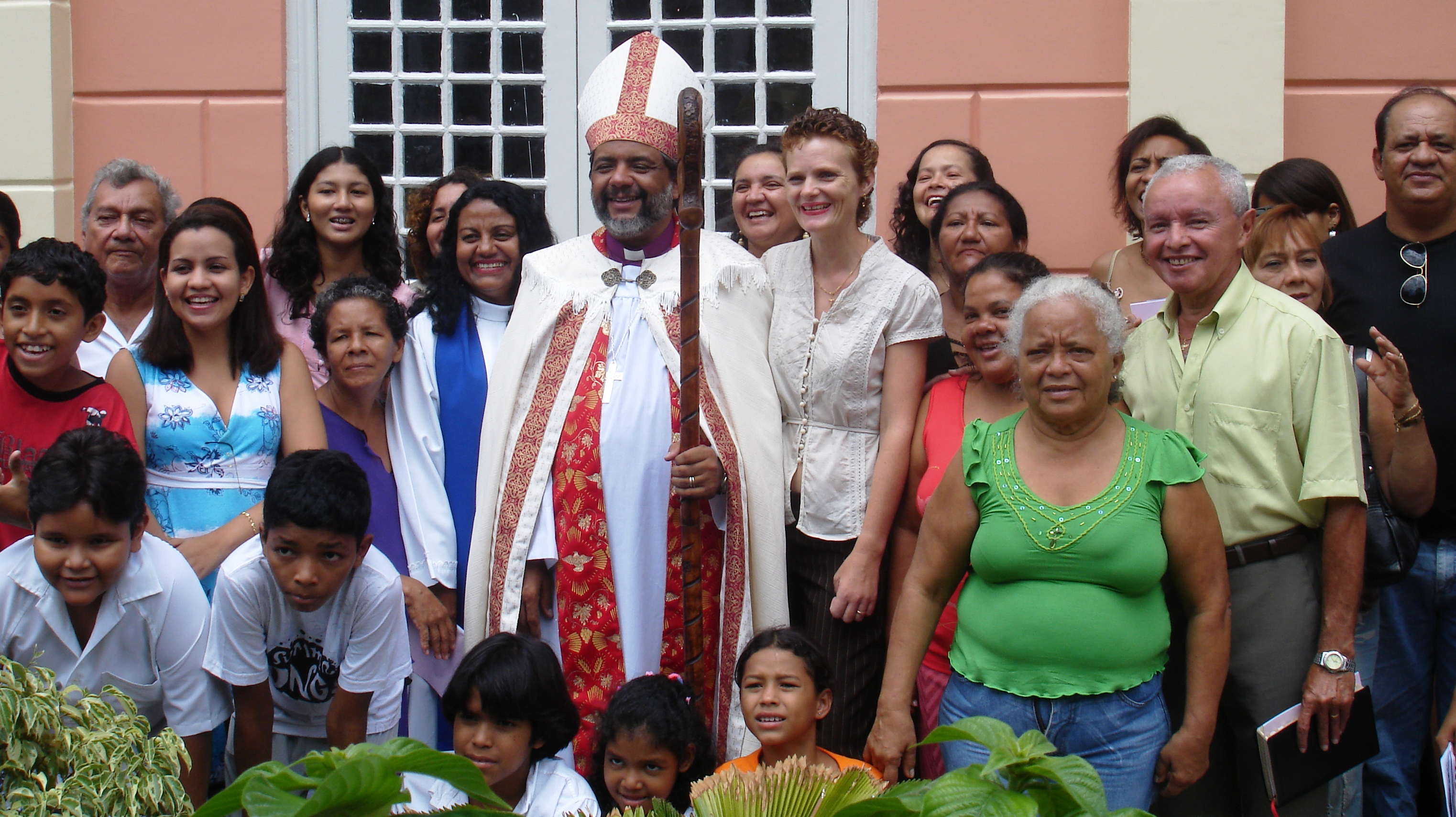 bishop Saulo Barros, Anglican Episcopal Church of Brazil / diocese of Amazonia, and the anglican community